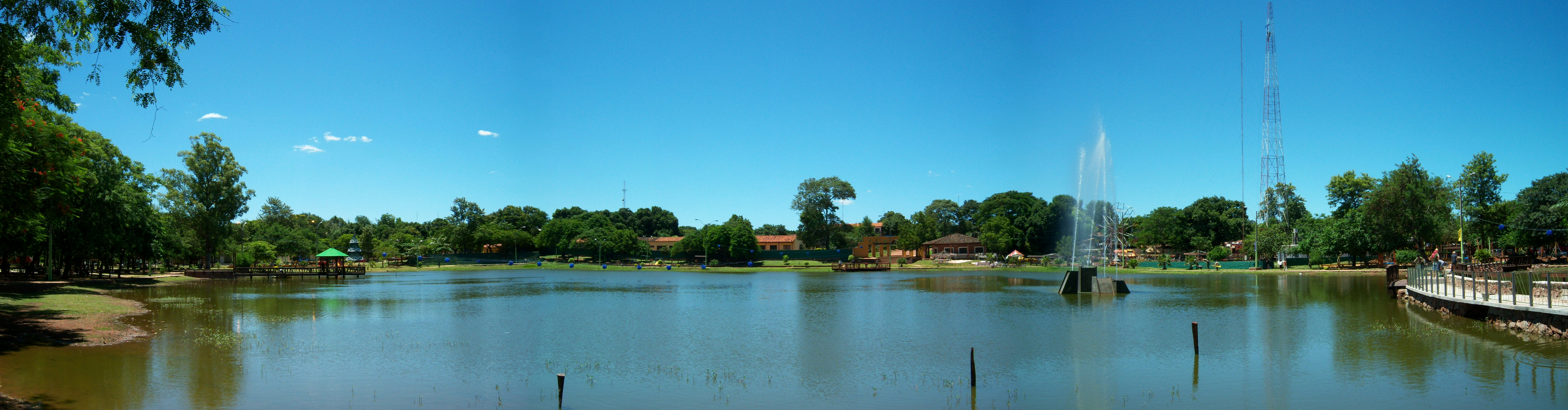 Laguna de Itá